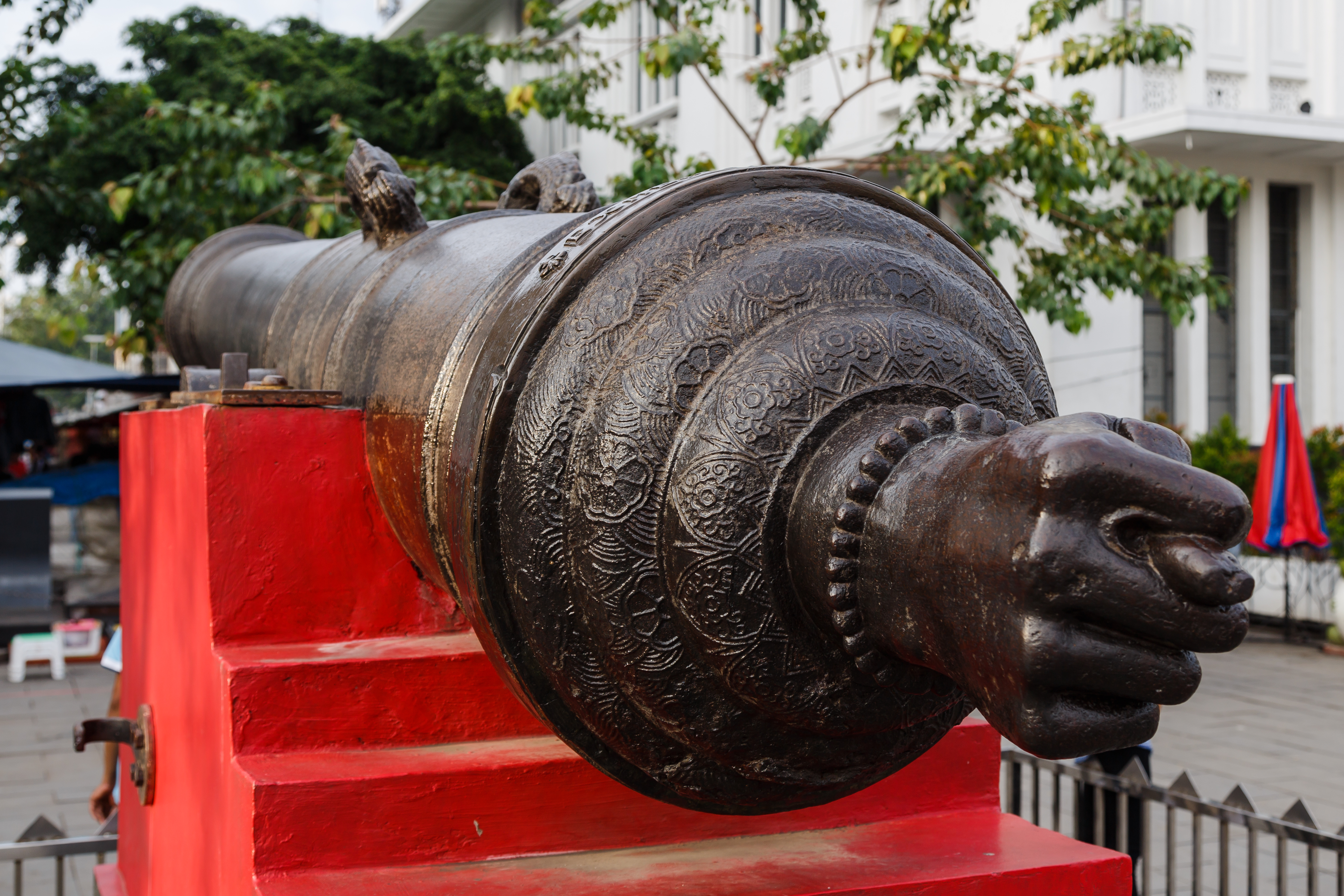 Jakarta, Indonesia: Si Jagur Cannon at Fatahillah Square. The Portuguese cannon comes with a hand ornament showing a fico gesture, which is believed by local people to be able to induce fertility on women.